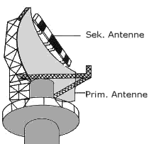 Drawing of a radar antenna